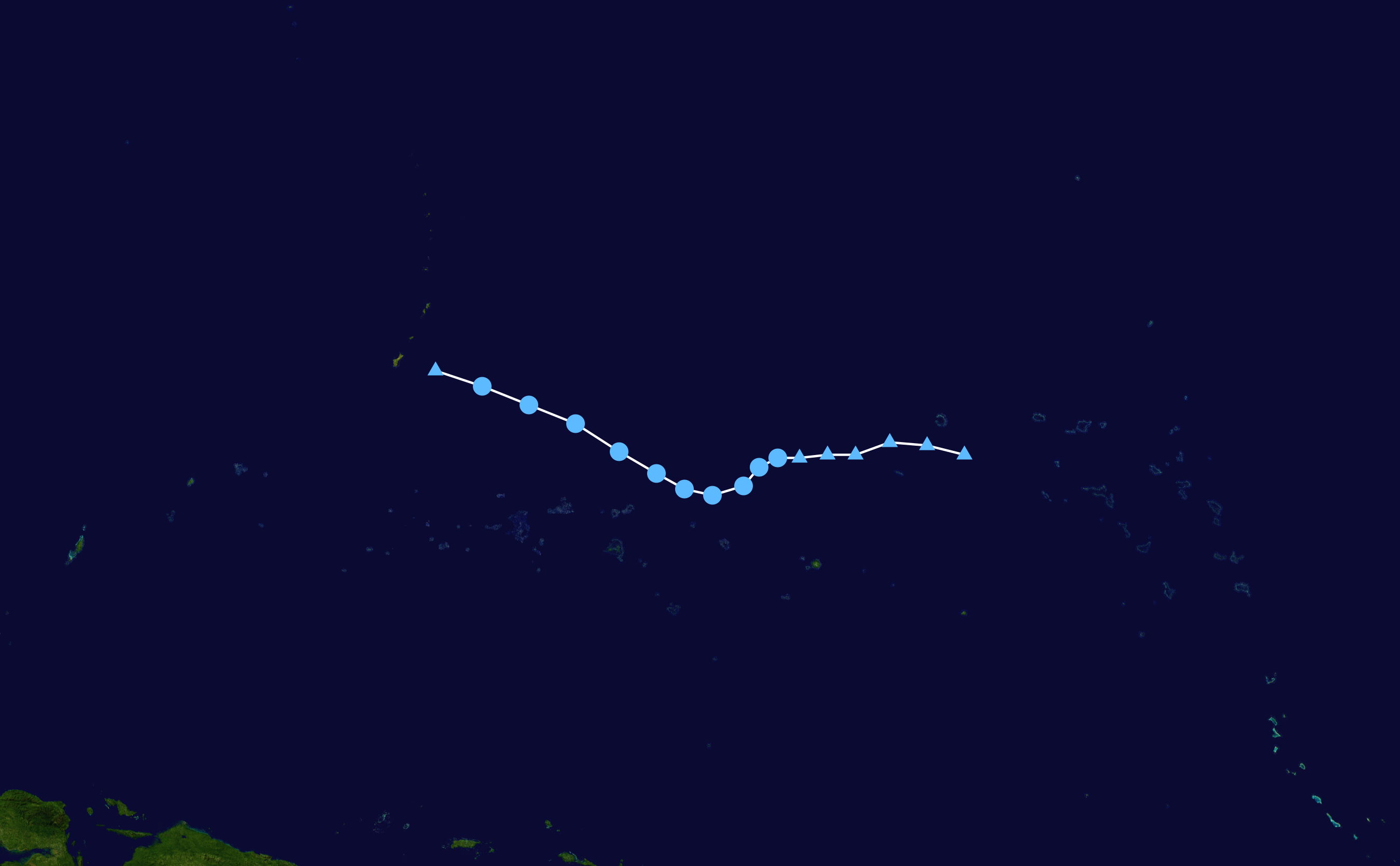 Track map of Tropical Depression 18W of the 2009 Pacific typhoon season. The points show the location of the storm at 6-hour intervals. The colour represents the storm's maximum sustained wind speeds as classified in the Saffir–Simpson scale (see below), and the shape of the data points represent the nature of the storm, according to the legend below. Saffir–Simpson scale Tropical depression≤38 mph≤62 km/h Category 3111–129 mph178–208 km/h Tropical storm39–73 mph63–118 km/h Category 4130–156 mph209–251 km/h Category 174–95 mph119–153 km/h Category 5≥157 mph≥252 km/h Category 296–110 mph154–177 km/h Unknown Storm type Tropical cyclone Subtropical cyclone Extratropical cyclone / Remnant low / Tropical disturbance / Monsoon depression